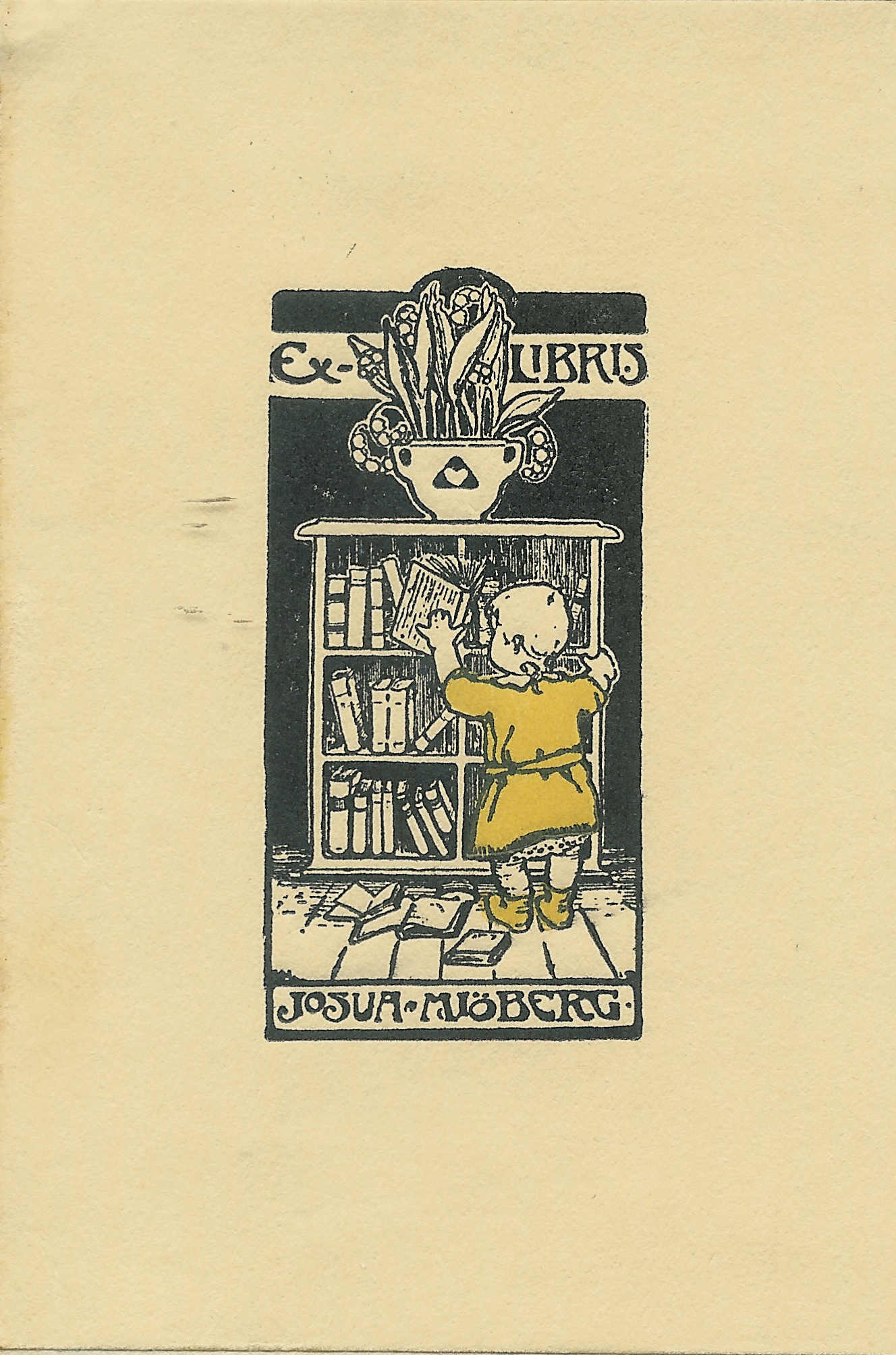 ExLibris used by Josua Mjoeberg (1876-1971)